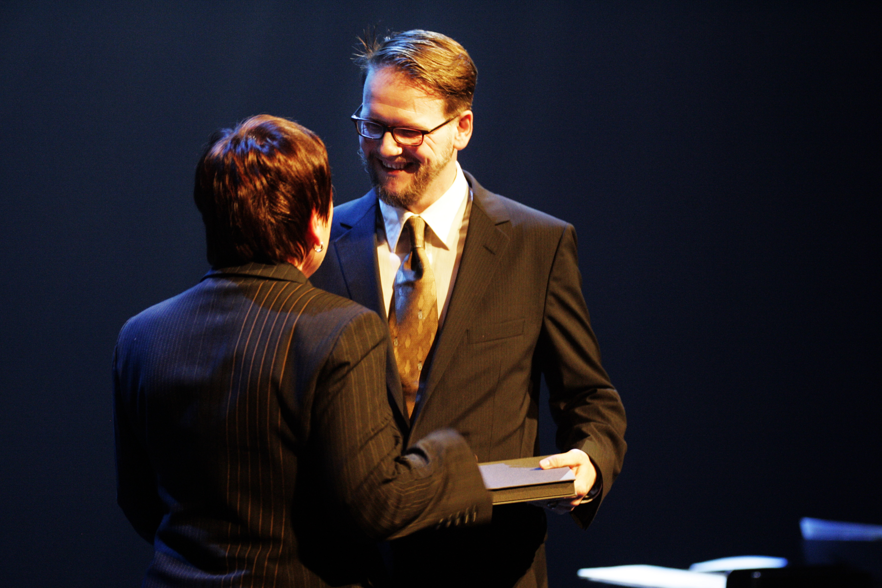 Sjón, Nordiska rådets litteraturprisvinnare tar emot priset från Nordiska rådets president, Rannveig Gudmundsdóttir. Keywords: Literature Prize